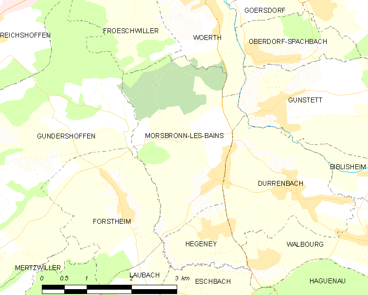 Map of French municipality